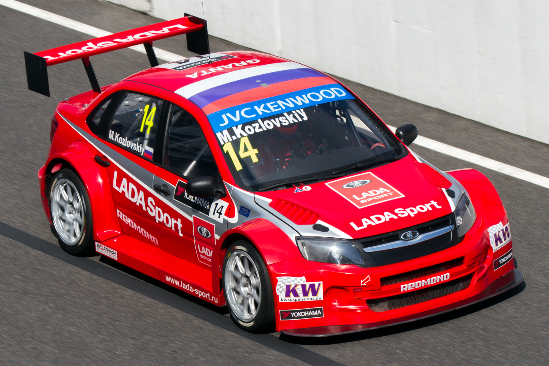 World Touring Car Championship 2014 Race of Japan: Mikhail Kozlovskiy (Lada Sport)